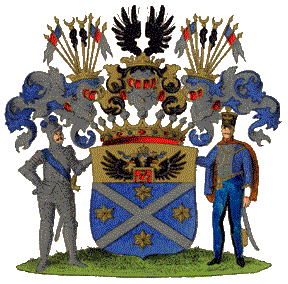 Coat of Arms of the Rydigers